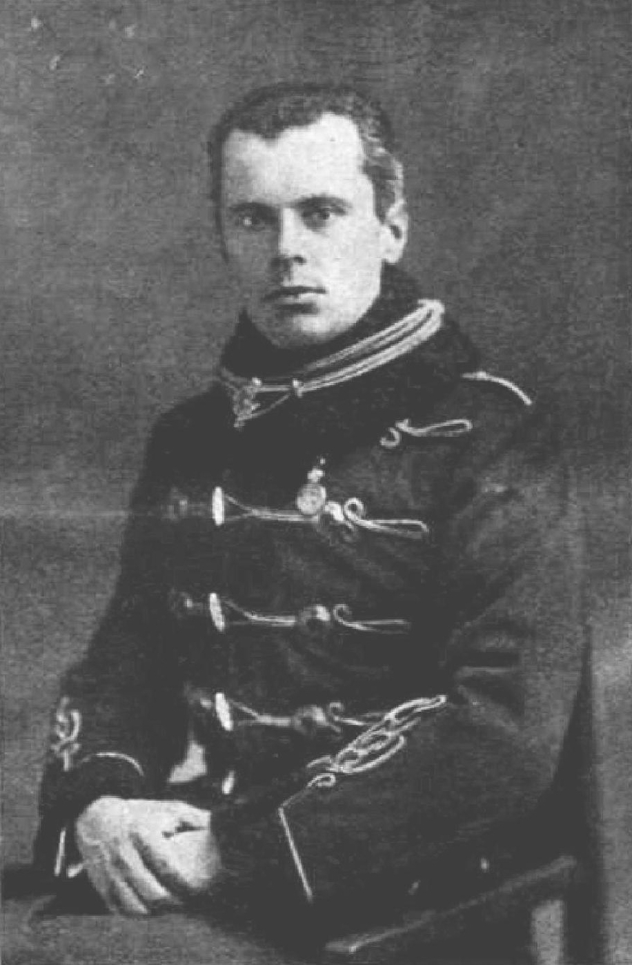 György Pallavicini